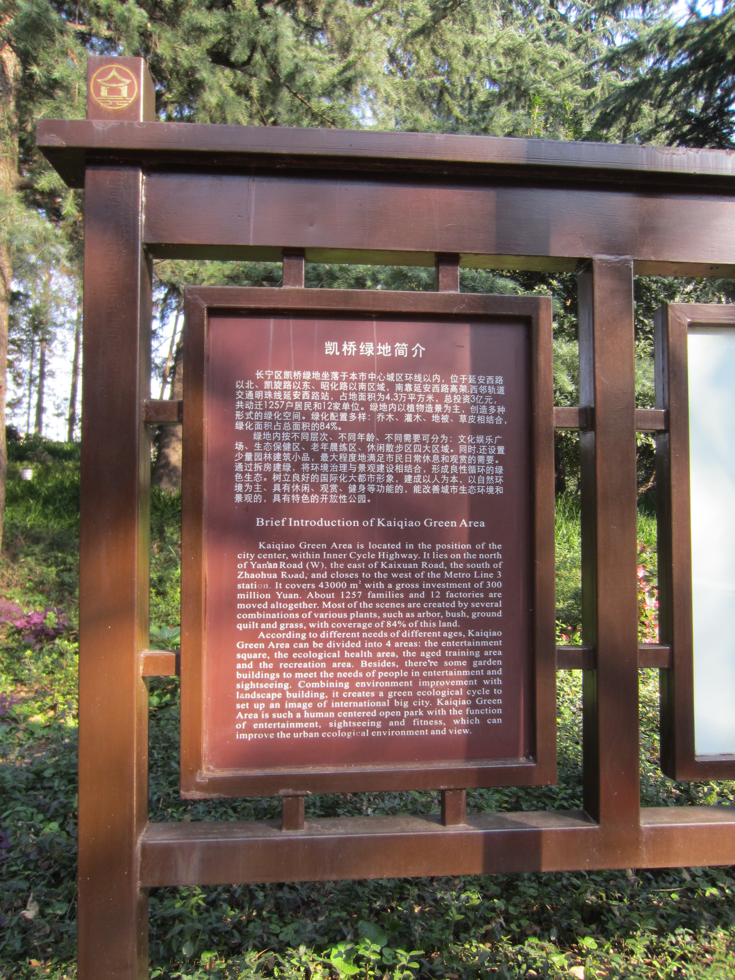 Shanghai, China, December 2015